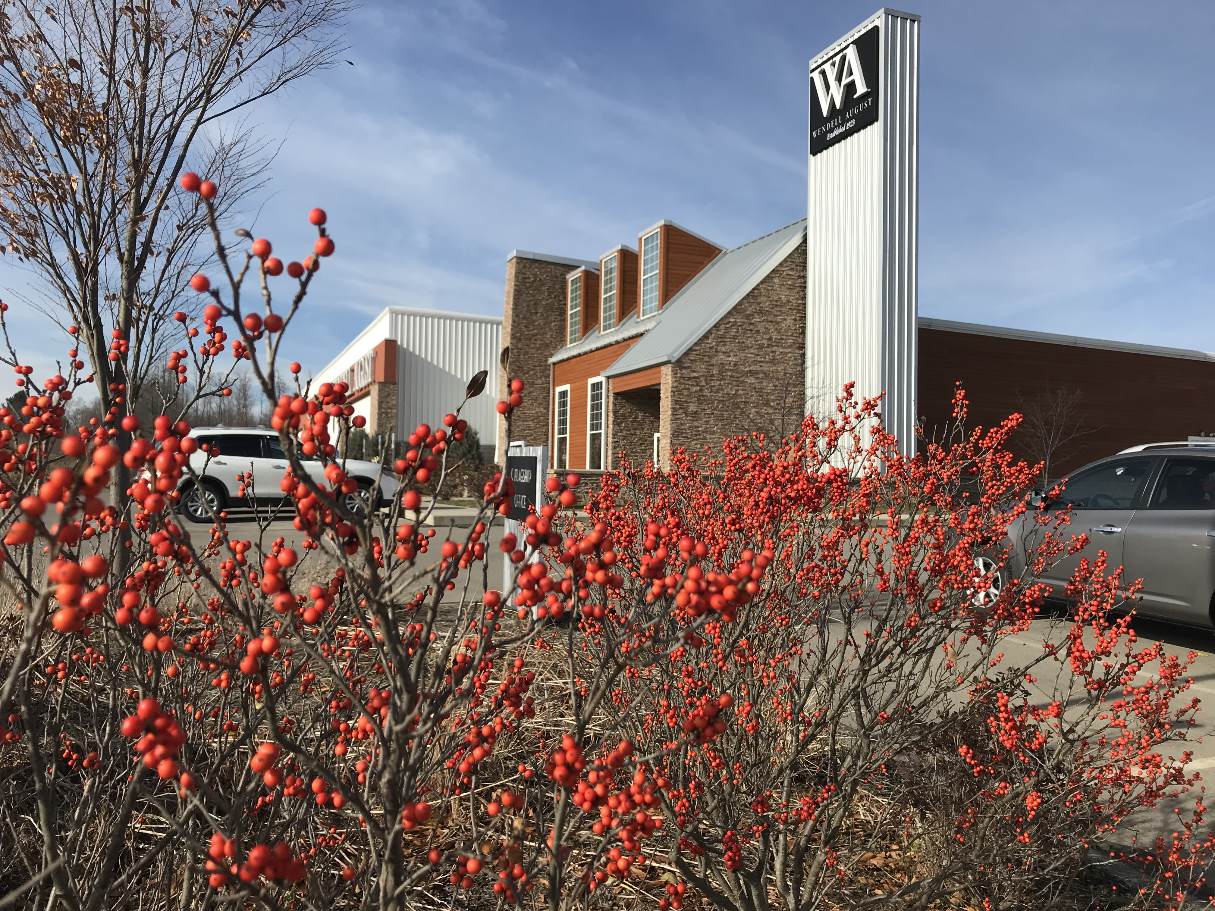 Wendell August Forge's Flagship Store in Grove City, PA